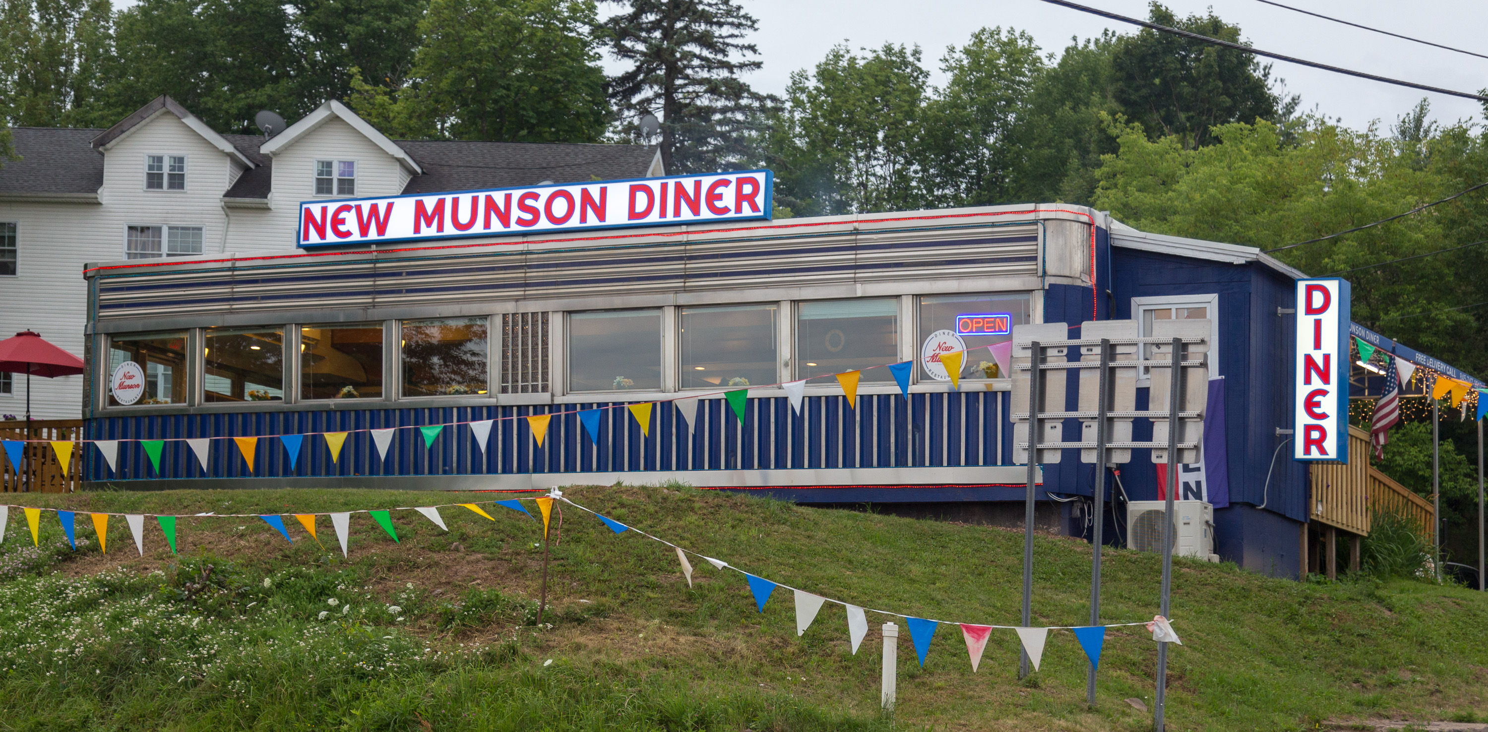 Munson Diner, downtown Liberty, New York. Originally located in Manhattan. Built by the Kullman Dining Car Company.